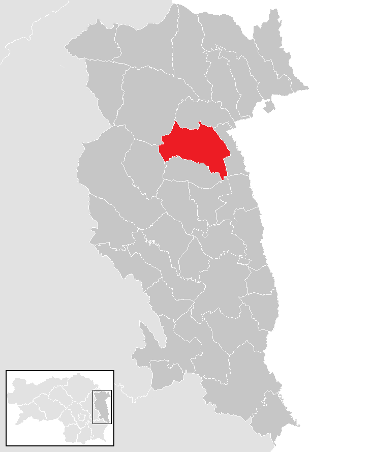 district Hartberg-Fürstenfeld